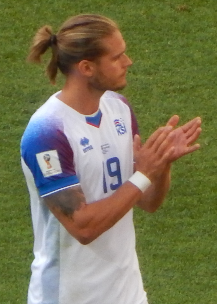 FIFA World Cup 2018, Group D, Argentina vs. Iceland